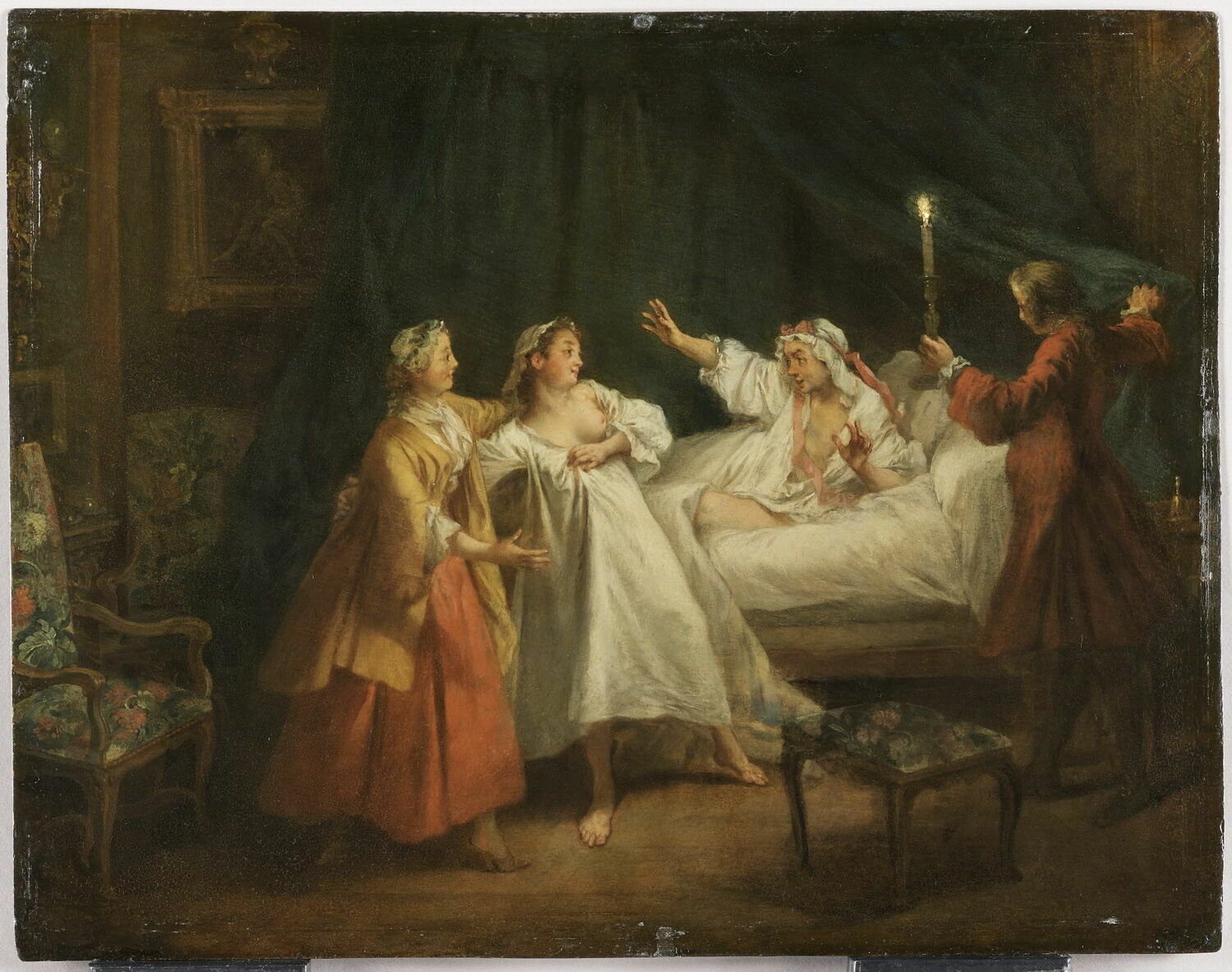 A scene from Jean de la Fontaine's story "Le Garçon Puni"